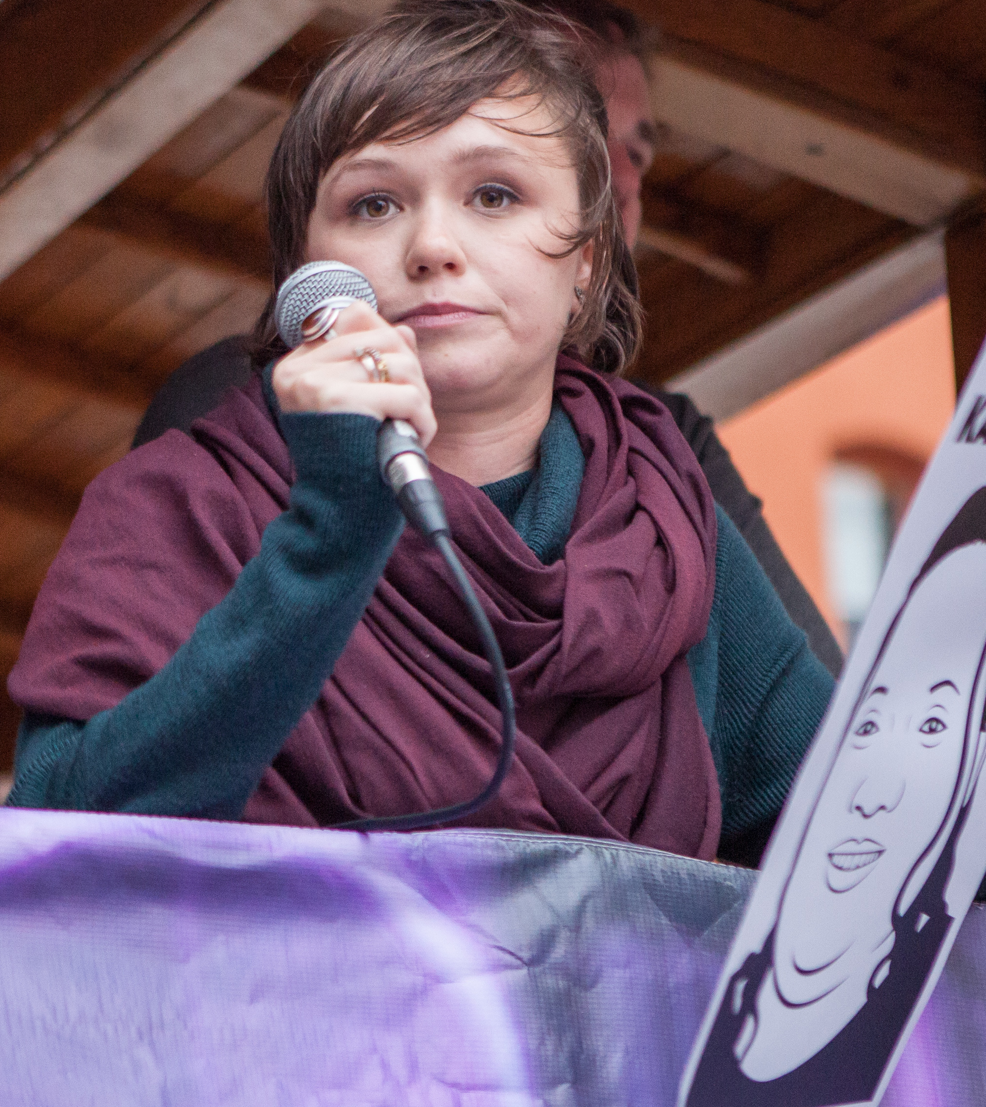 "When We Rise" miniseries actors Ivory Aquino and Emily Skeggs speak at Trans March San Francisco 2017.